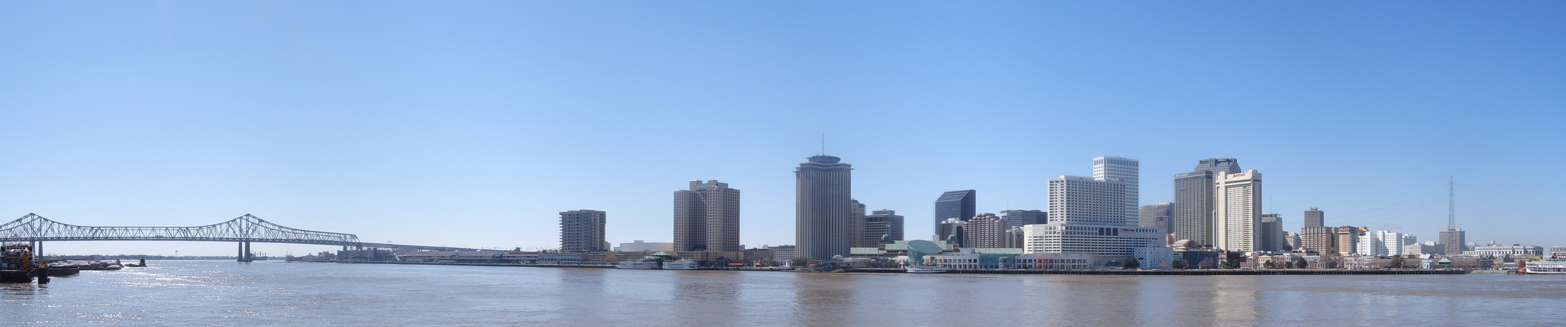 New Orleans is the largest city in the state of Louisiana. Downtown New Orleans Panoramic